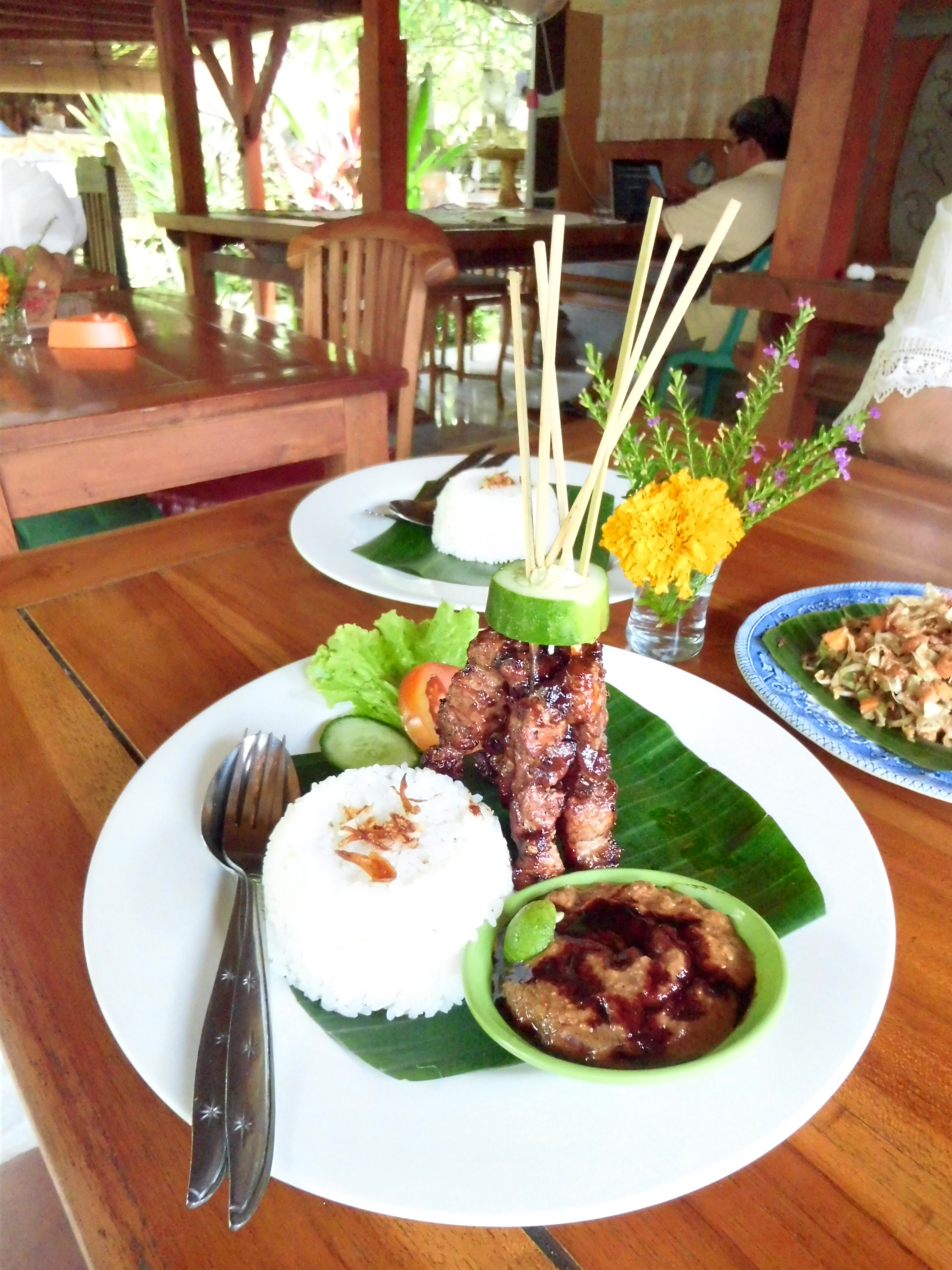 Balinese Sate Babi (pork satay) and Karedok (Sundanese salad in peanut sauce) served in a nice restaurant in Ubud, Bali, Indonesia.